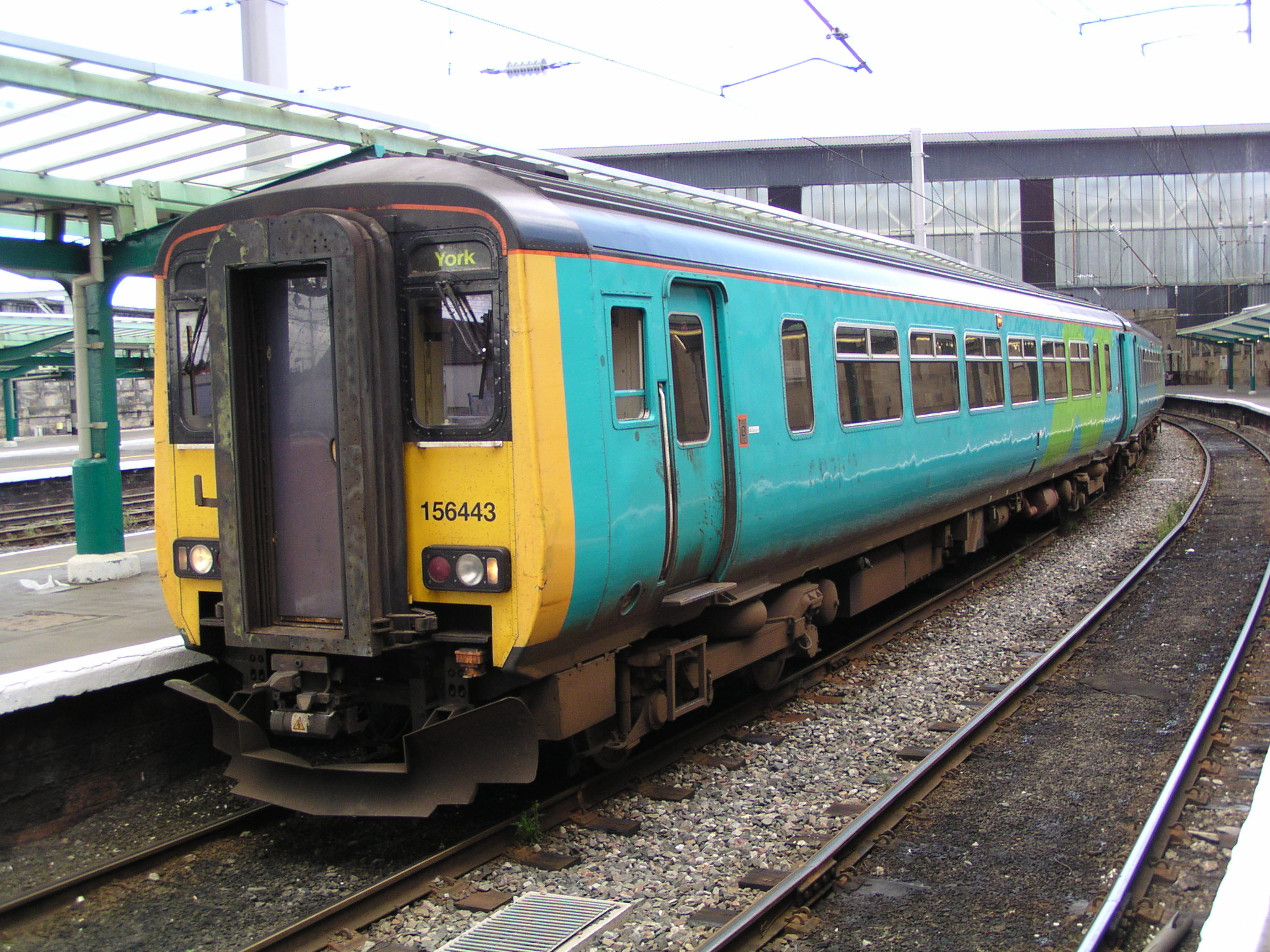 BR Class 156, no. 156443, at Carlisle, on 27th August 2004.